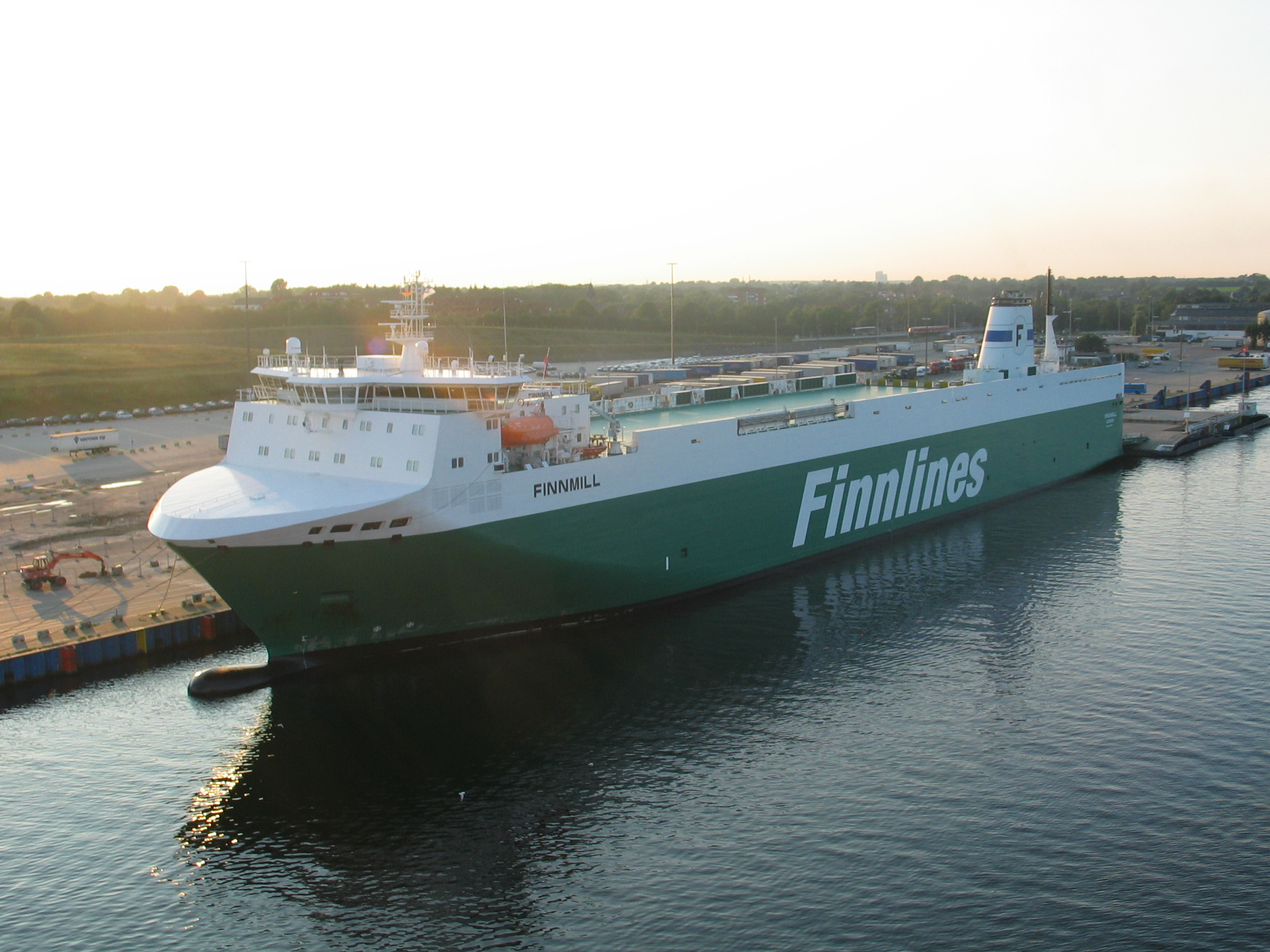 M/S Finnmill IMO Number: 9212656 MMSI Number: 266294000 Callsign: SCIO Length: 187 m Beam: 26 m